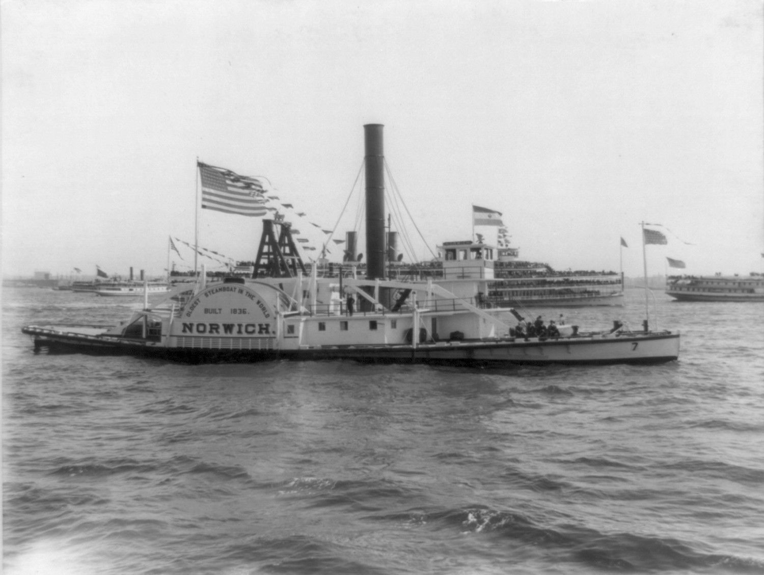 Photograph taken by William H. Rau of the Norwich, which in 1909 billed itself as the world's oldest steamboat. Built in 1836, the Norwich serviced the Hudson River in New York until 1917.